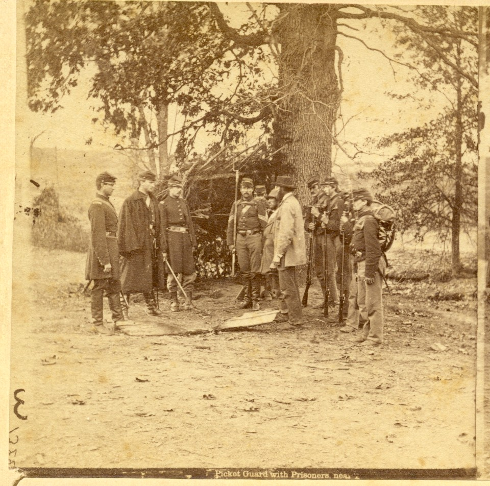 The "Cameron Highlanders" of the 7th New York are reprising their roles as pickets during their reconnaissance of Lewinsville, Virginia on Sept. 11, 1861.